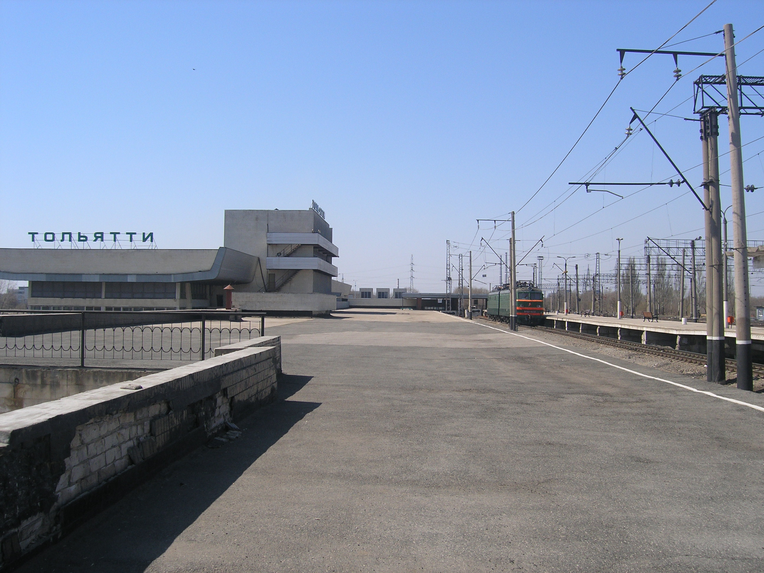 Togliatti railway station